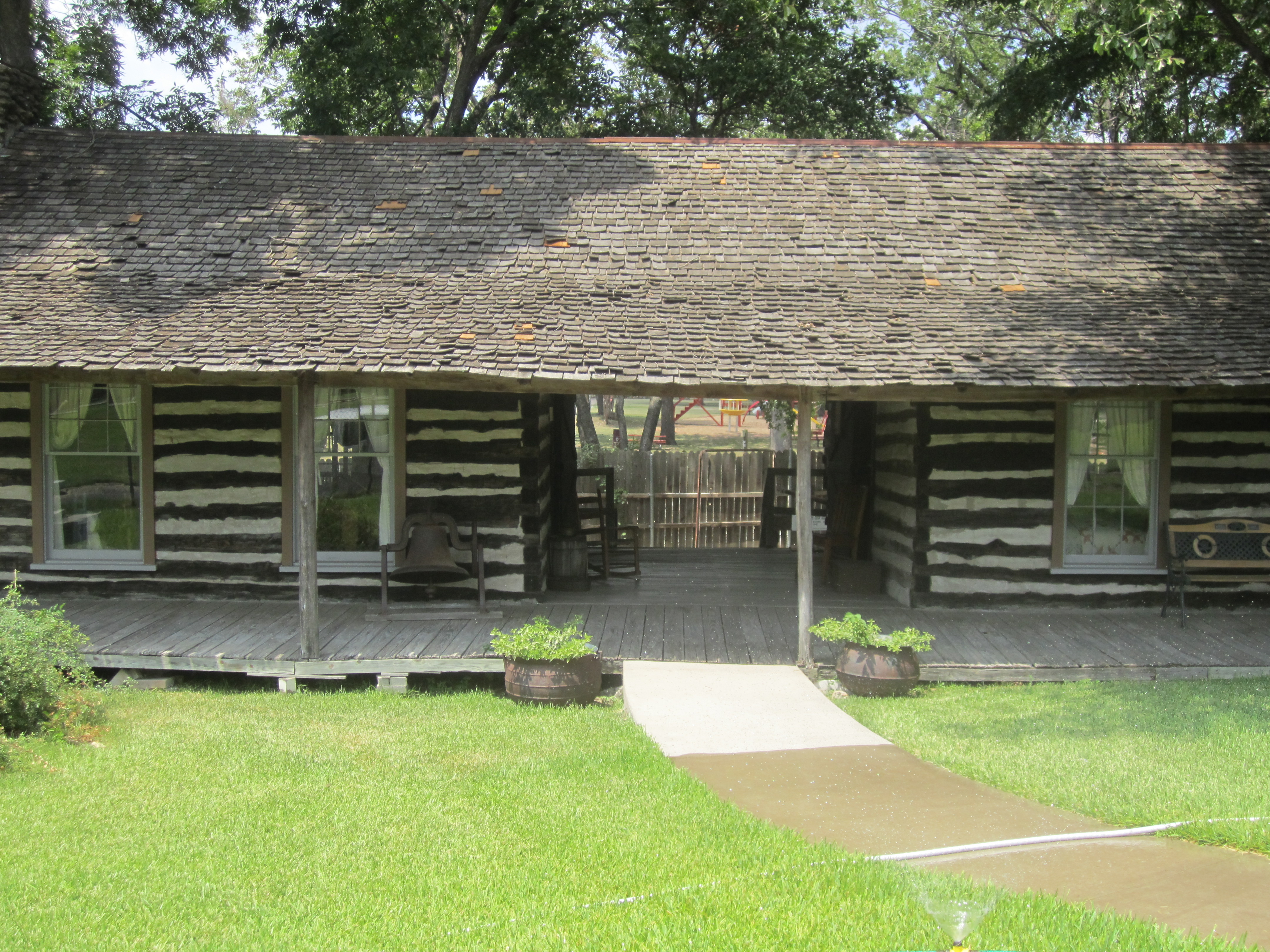 I took photo with Canon camera in Corsicana, TX.